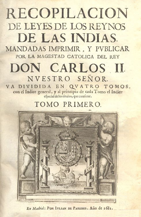 An engraving giving details of the publication, including the royal seal of King Carlos II of Spain